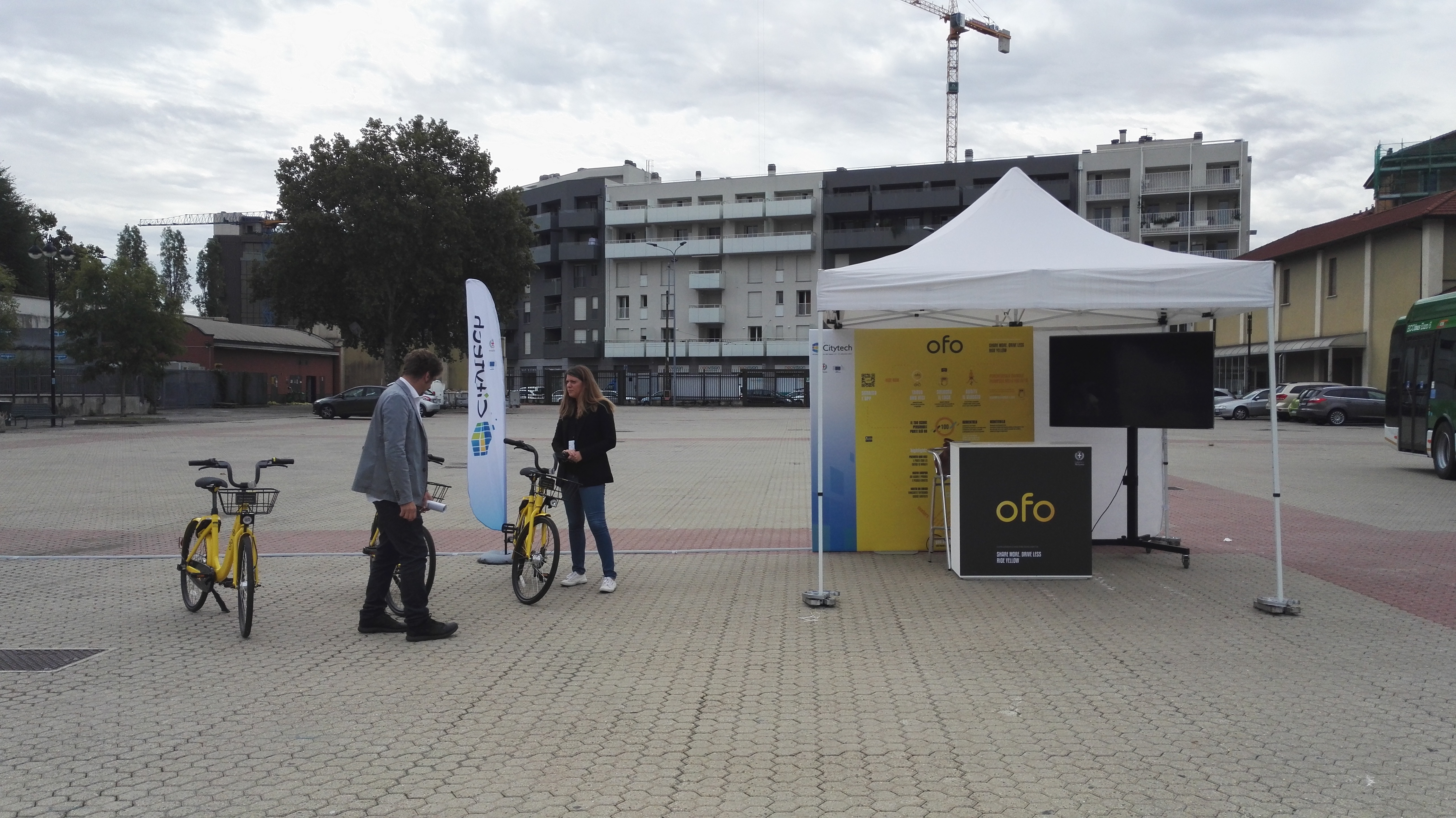 Ofo al citytech 2017 a Milano